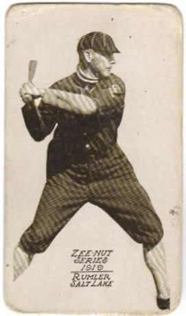 1919 baseball card for Bill Rumler.